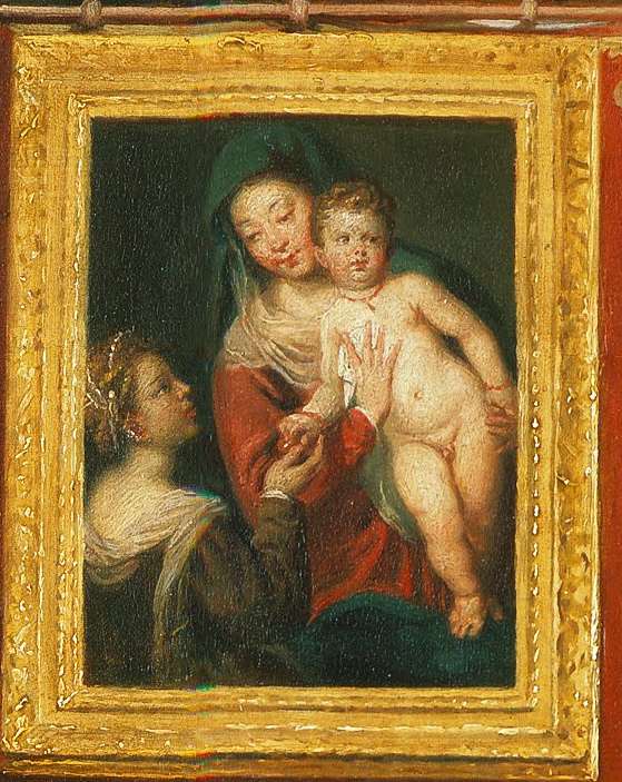 Tribuna of the Uffizi